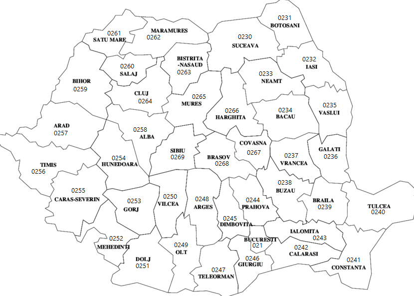 Map of phone prefixes of Romania